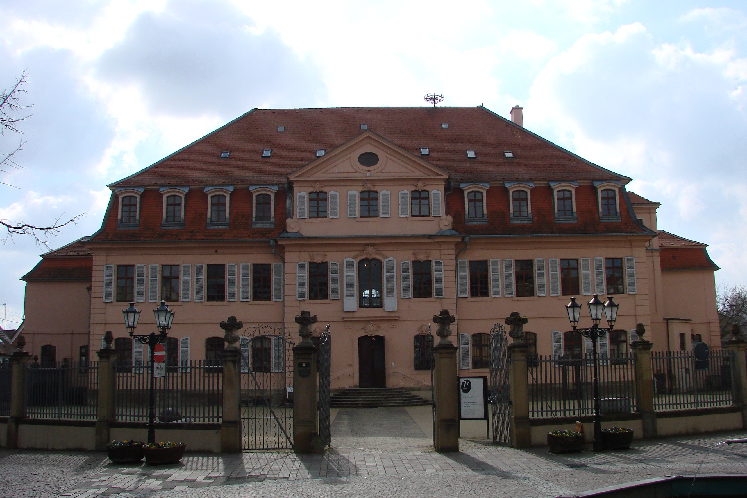 Bönnigheim, castle of Graf Stadion, 1756